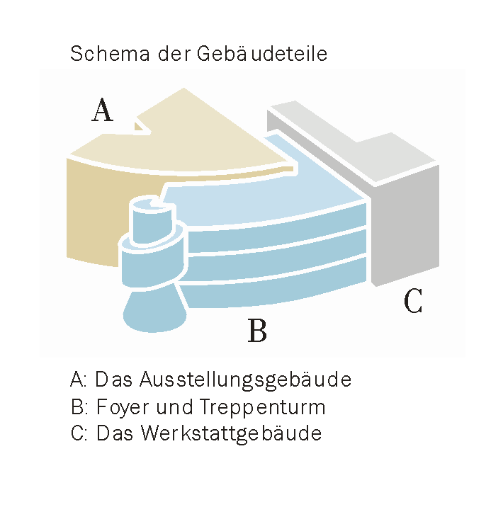 Deutsches Historisches Museum (German Historical Museum) in Berlin. Enlargement-building, architect I. M. Pei. Scheme of the three parts of the building.